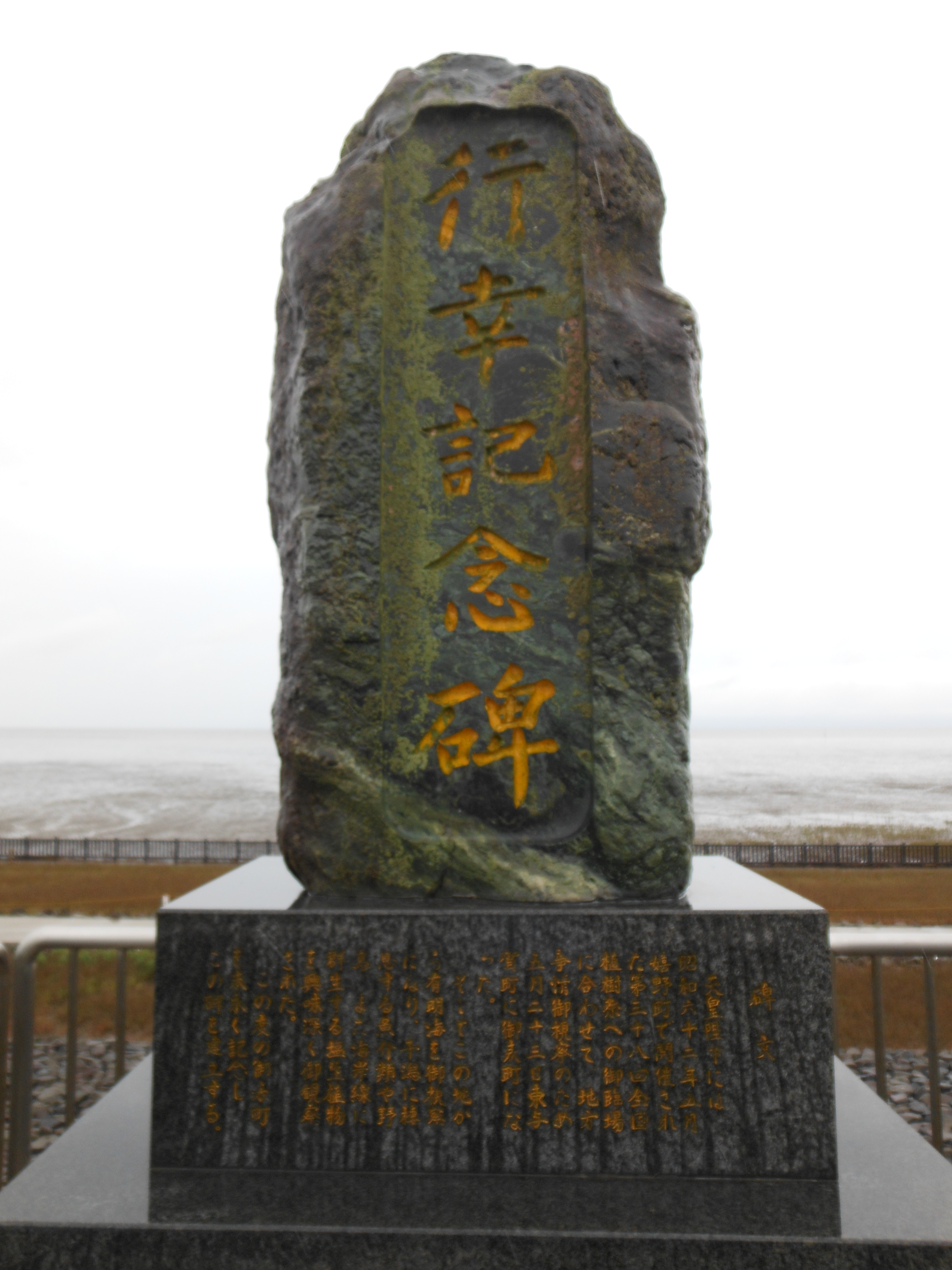 Memorial stone of Emperor Hirohito's last visit place, Saga Higashiyoka Coast.